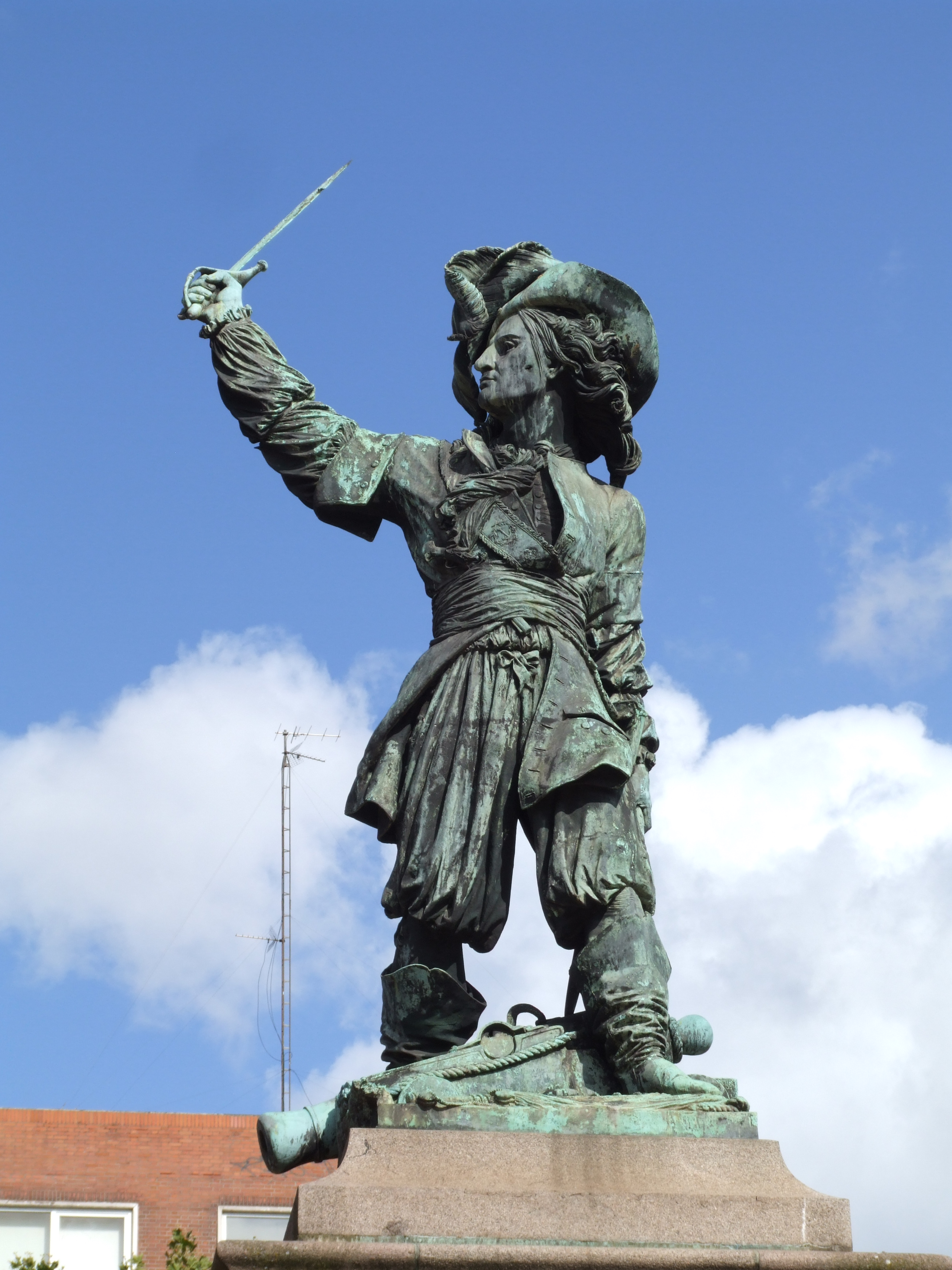 Statue of Jean Bart on the Place Jean Bart in the center of Dunkerque. France - David d'Angers 1845